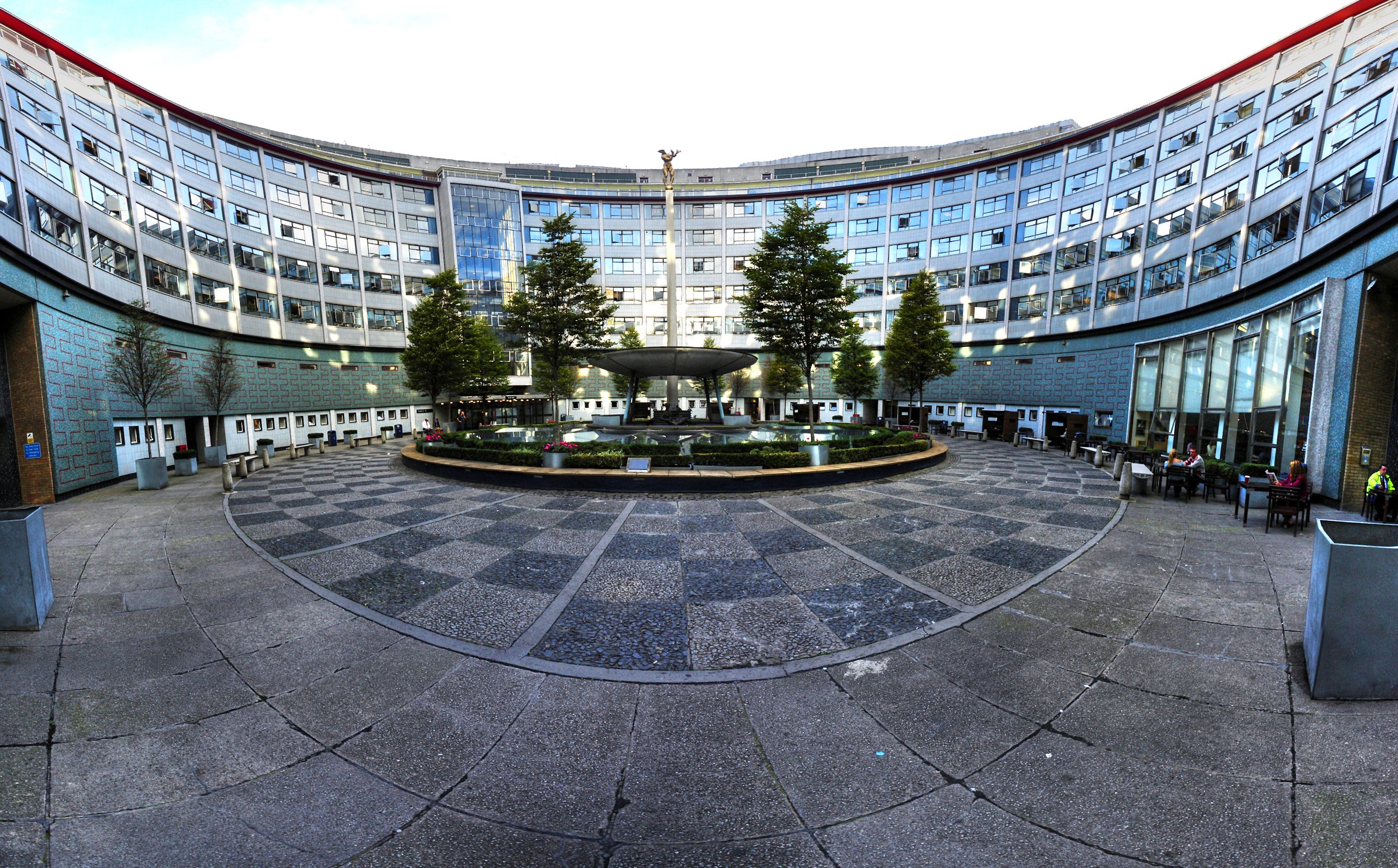 Panoramic photograph from within the central courtyard area of BBC Television Centre in West London.